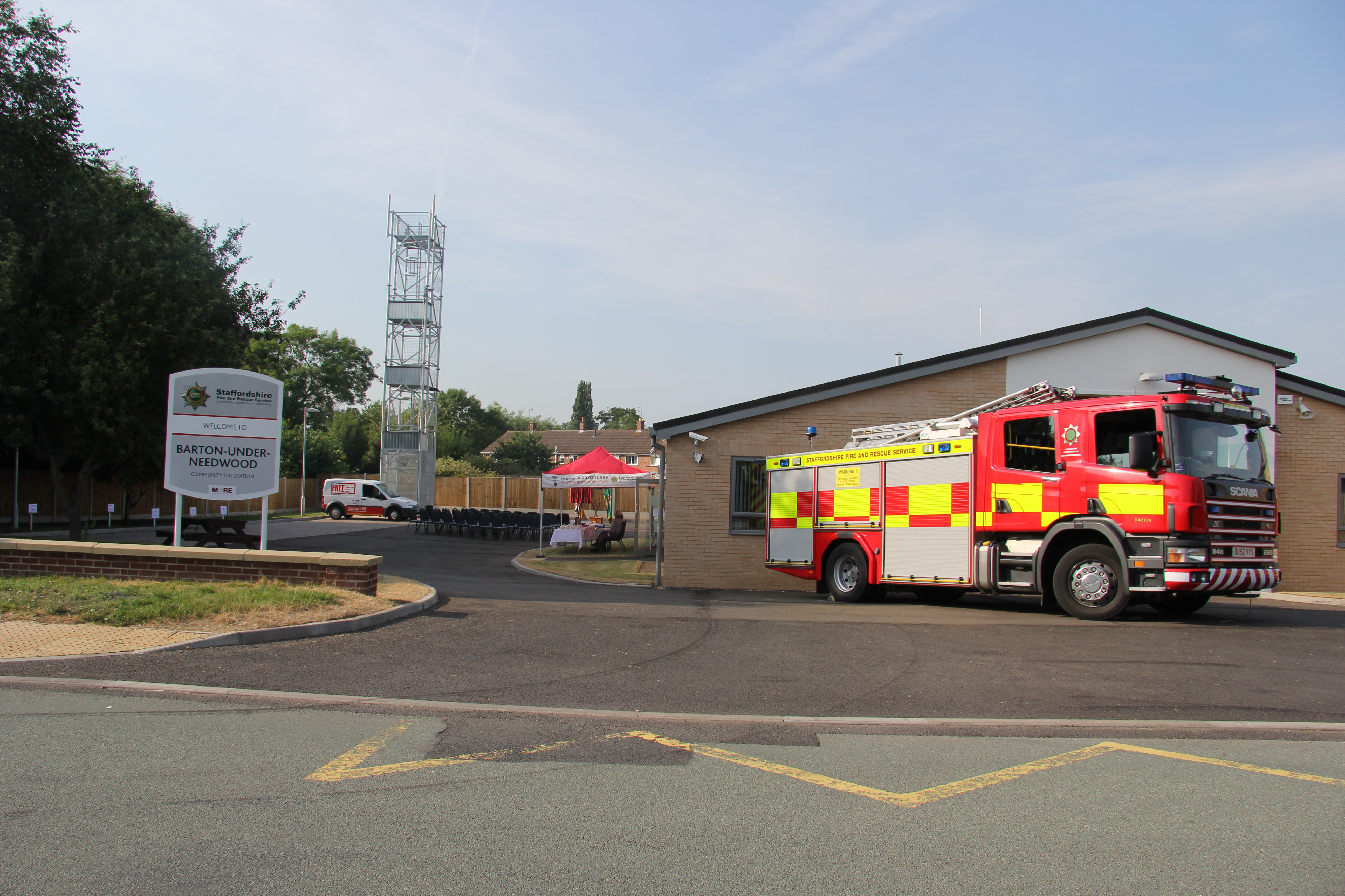 Scania P94D appliance DU52VYS outside Barton-under-Needwood Community Fire Station in Staffordshire